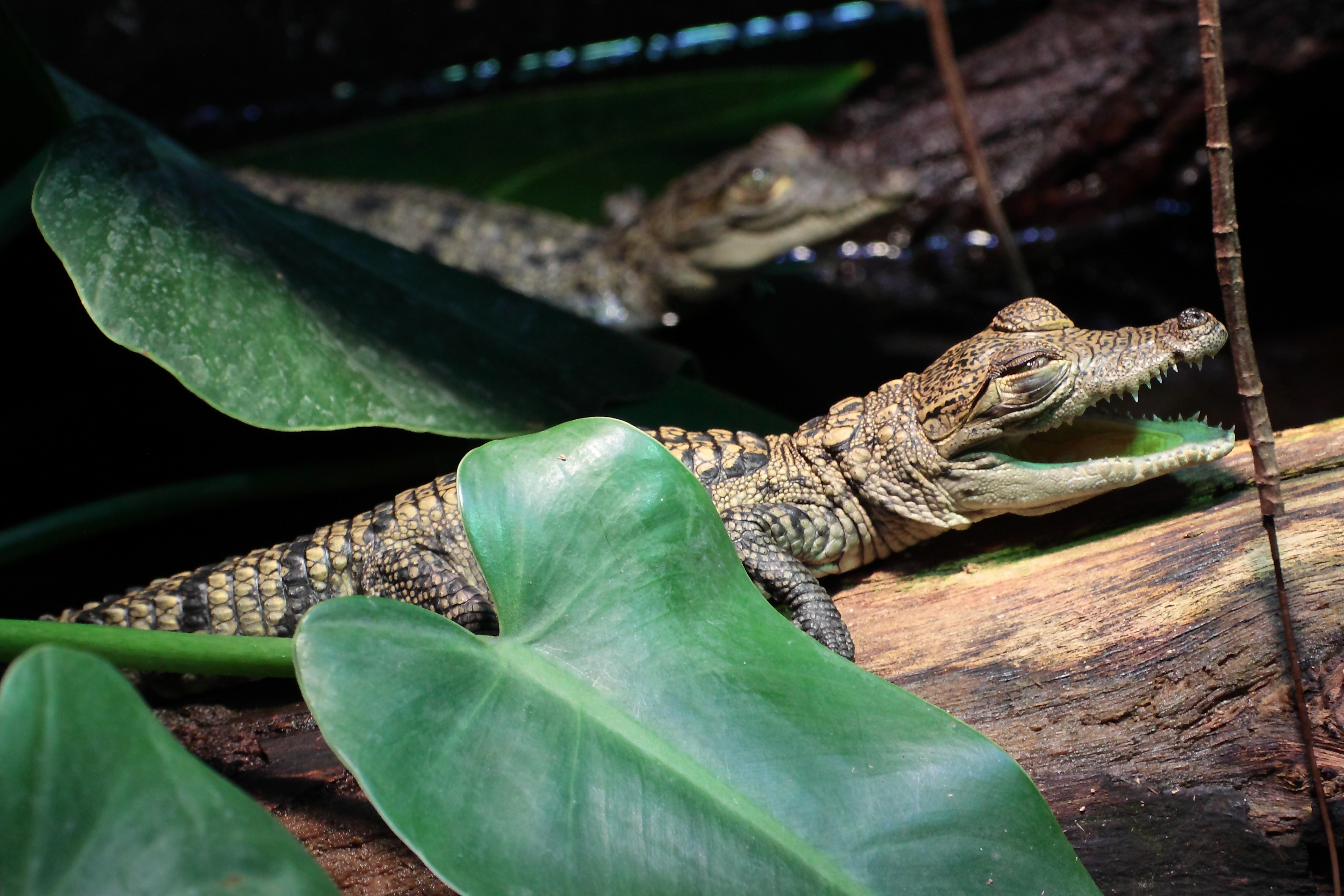 A 6 month old Morelet's crocodile ( Crocodylus moreletii ). The Photo was taken at Tiergarten Schönbrunn.